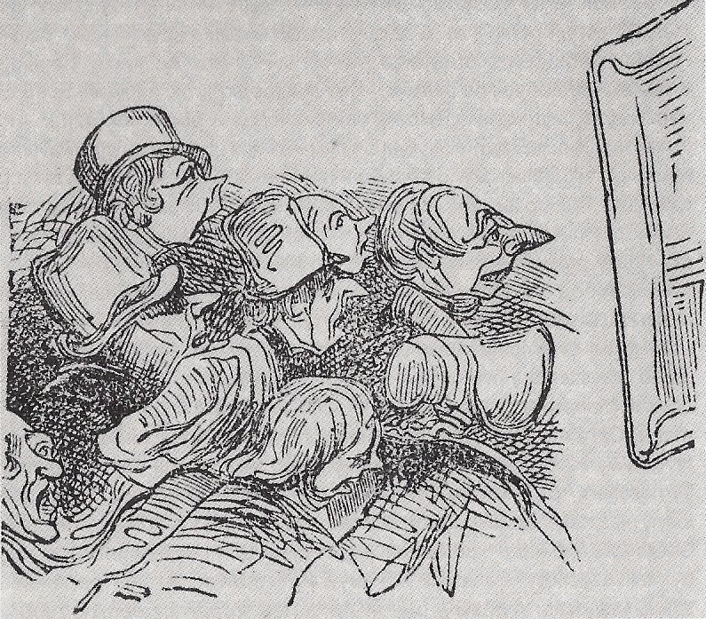 Caricature of Paris Salon public